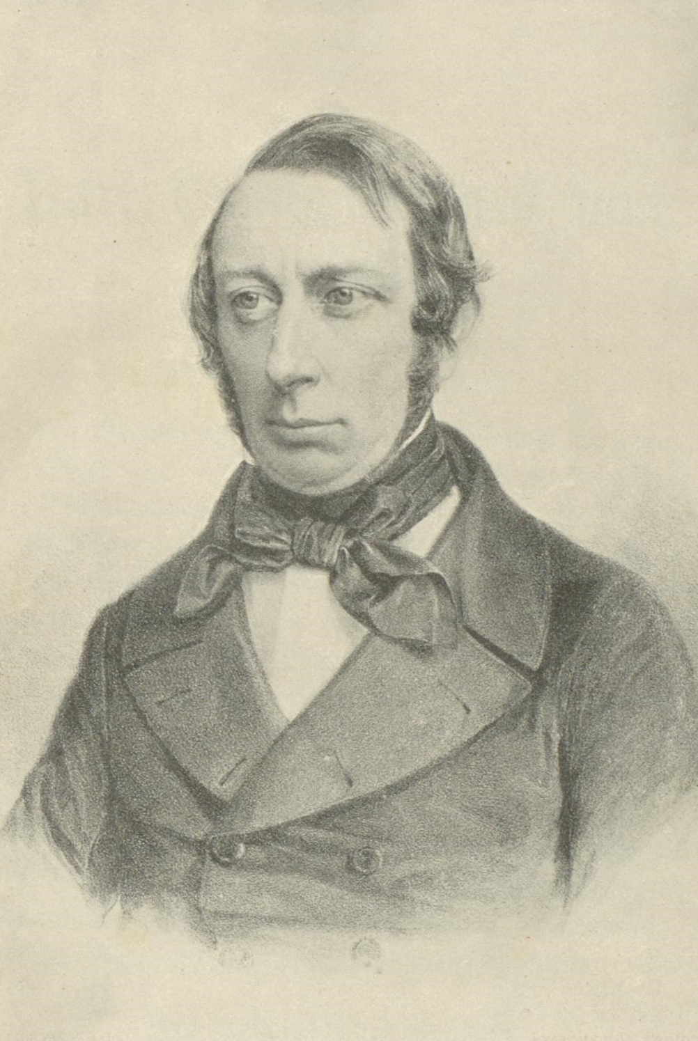 Carl Reinhold Graf von Krassow